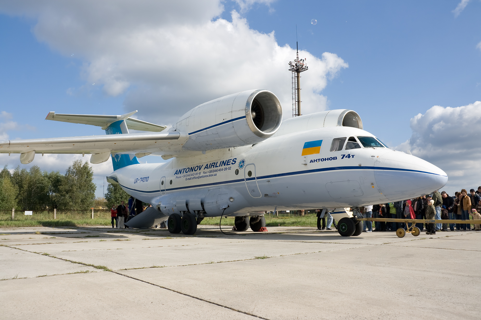 Antonov An-74